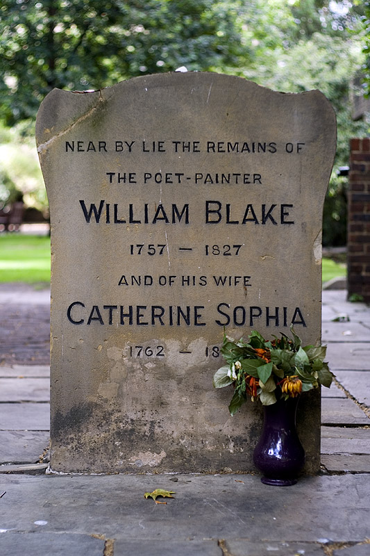 Grave of William Blake